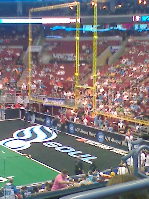 Picture of an Arena Football League goal post. Taken at the Wachovia Center, Philadelphia, PA